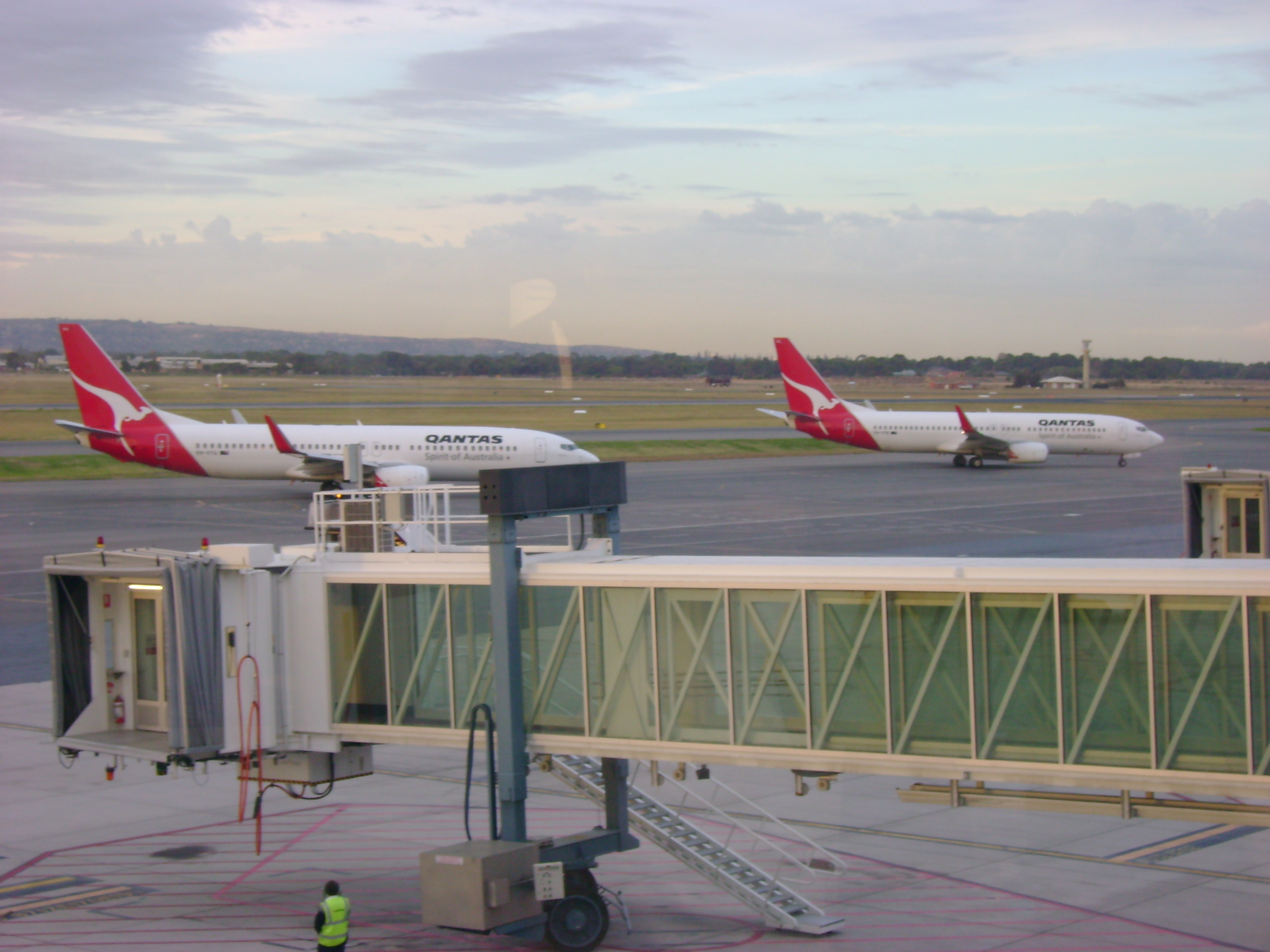 Two Qantas 737-800s taxiing to the runway at Adelaide International Airport